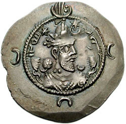 Coin of Khosrau I, an Sasanian king.